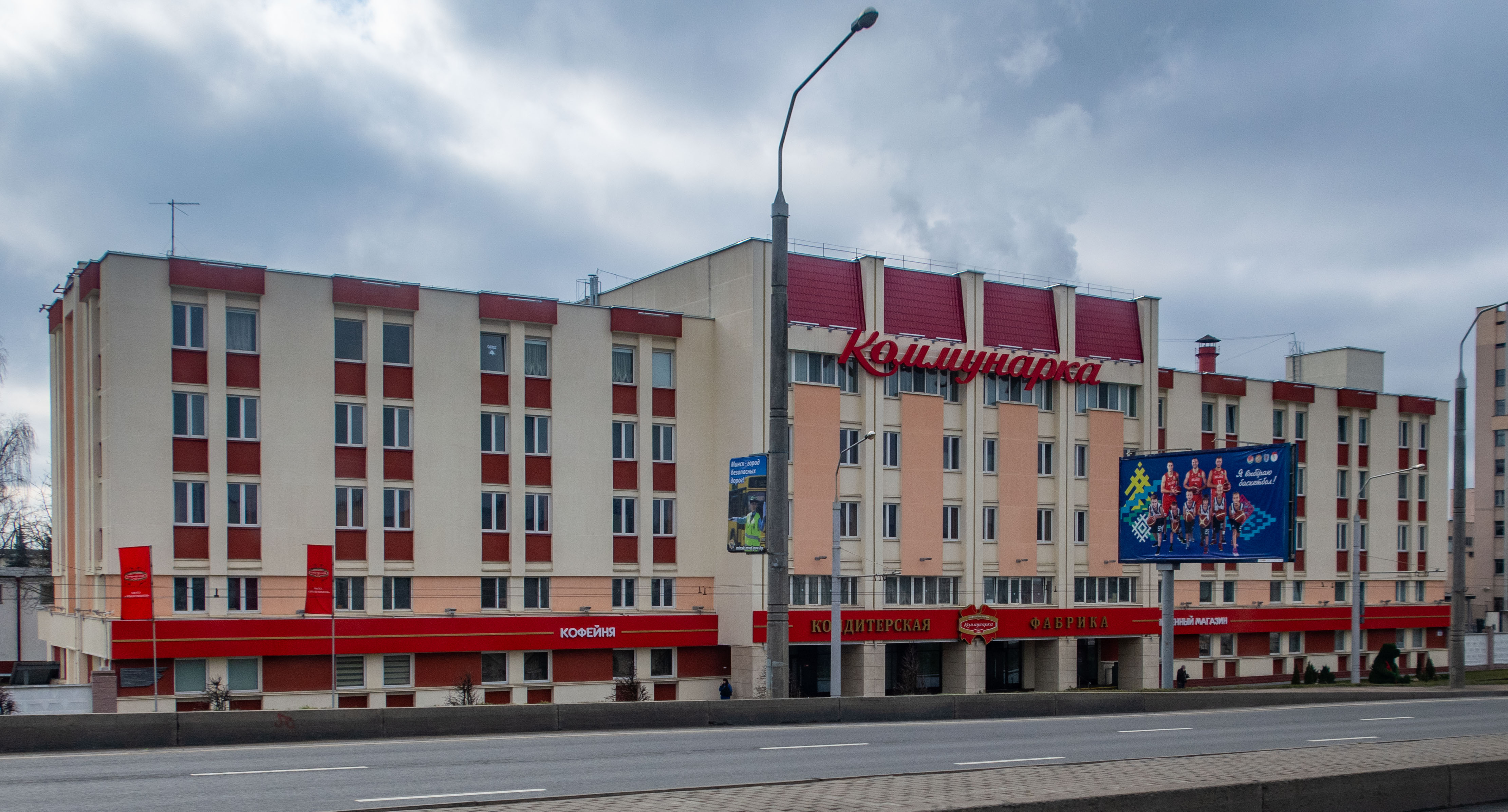 Kommunarka (Kamunarka) confectionary factory. Minsk, Belarus